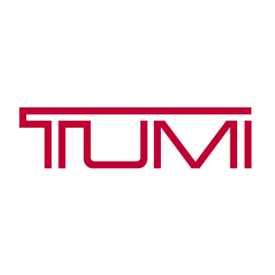 Tumi, Inc. Logo